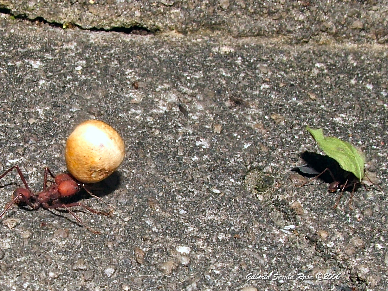 Social justice: All for the Common Good, according to its aptitudes.... System of quotas? Described on Justícia social as '"Justícia social", foto de Gilberto Santa Rosa simbolitzant la desigualtat.' ('"Social justice," Gilberto Santa Rosa picture symbolizing inequality.')